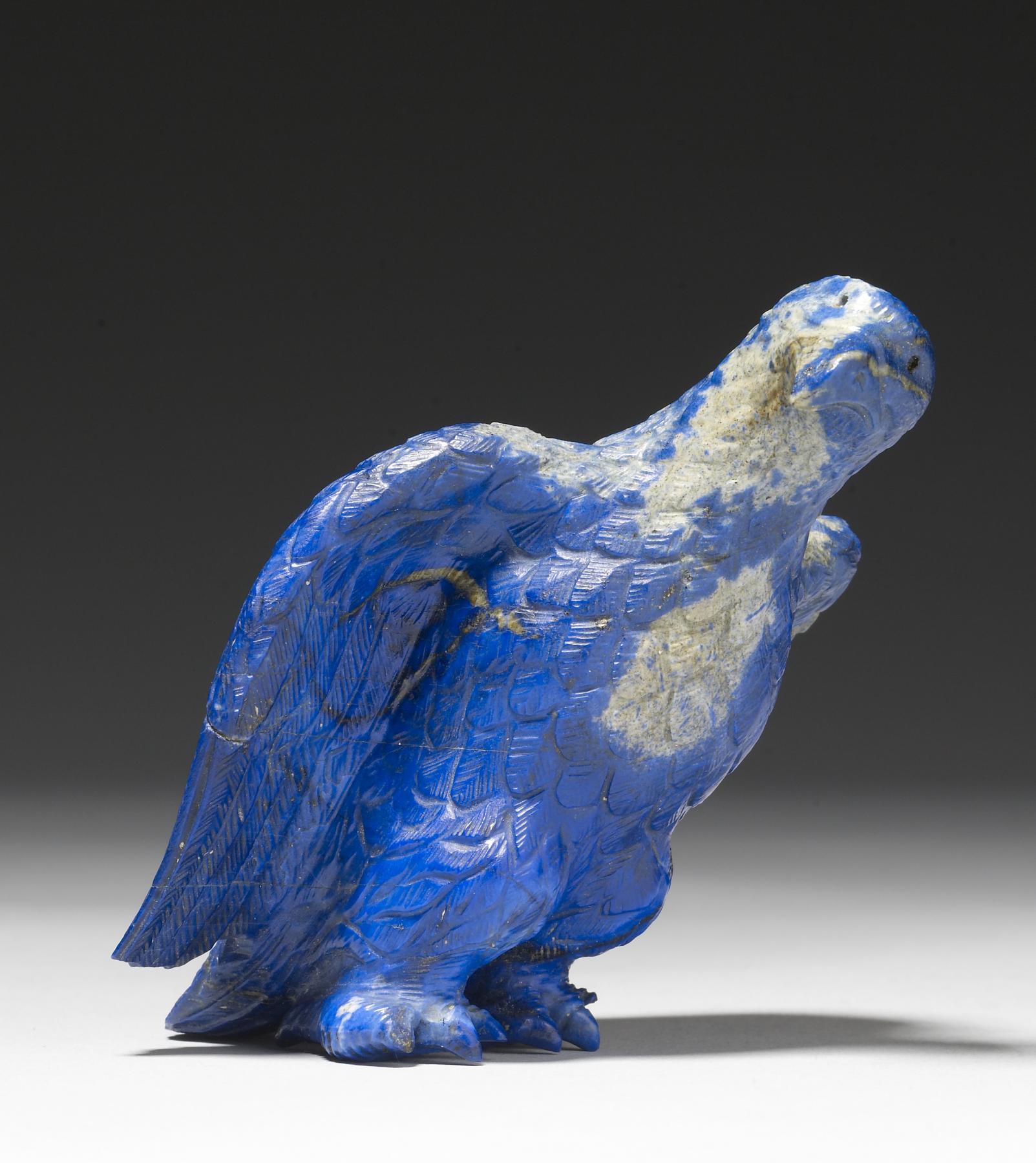 A rare example of the gem-carver's art is this lapis lazuli eagle, possibly the finial (top) of an imperial scepter. Lapis enjoyed great popularity in the late Roman and Early Byzantine periods as its rich purple-blue color was associated with royalty. From the 3rd century on, the emperor, often appears on coins and medallions carrying an eagle scepter, emblem of victory and authority.